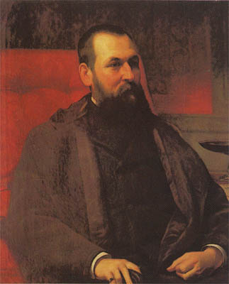 Spanish Politician Servando Ruiz Gómez